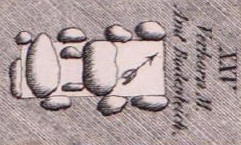 Megalithic tomb near Linden, Sprockhoff-No. 793